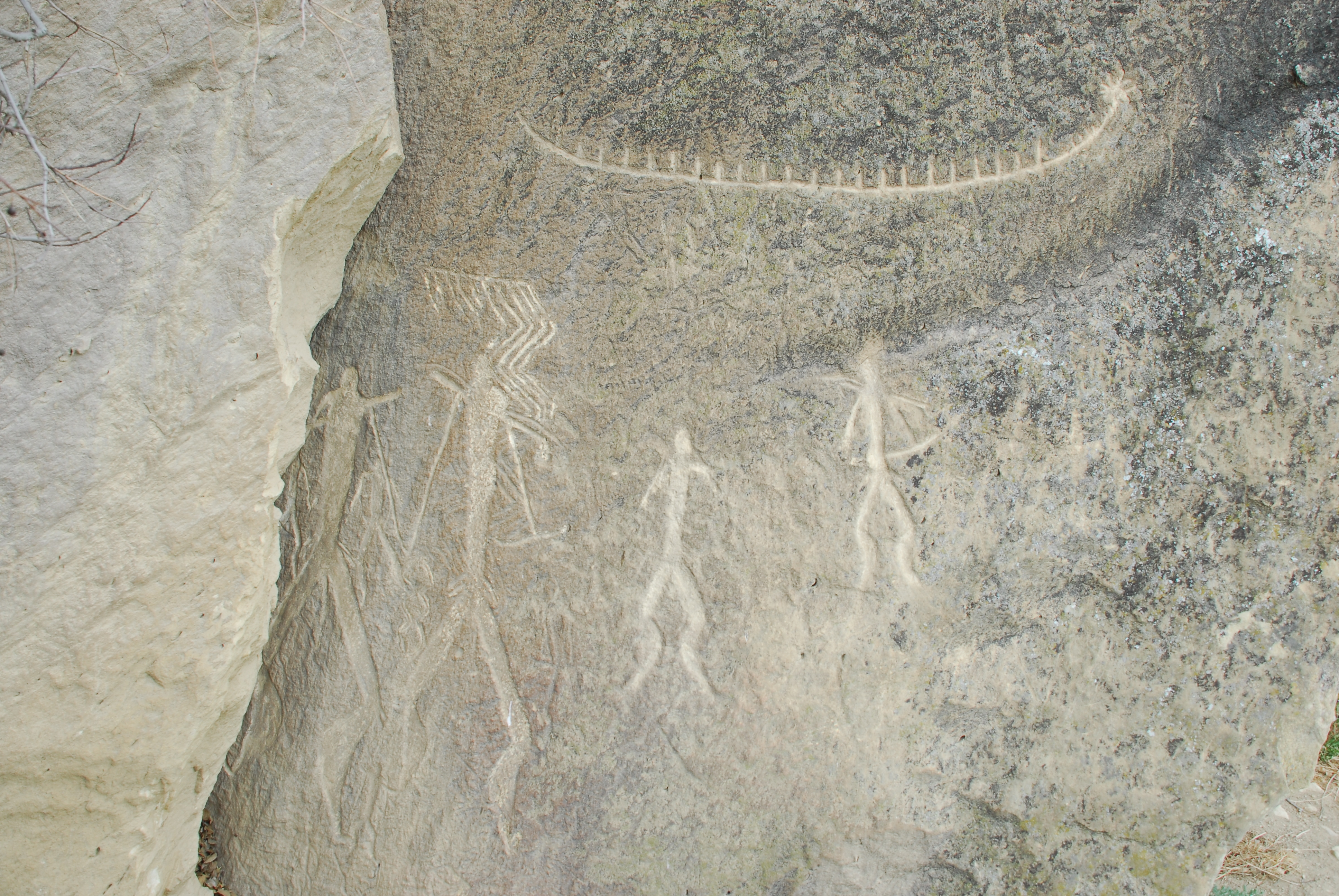 Rock paintings in Gobustan State Reserve, Azerbaijan.